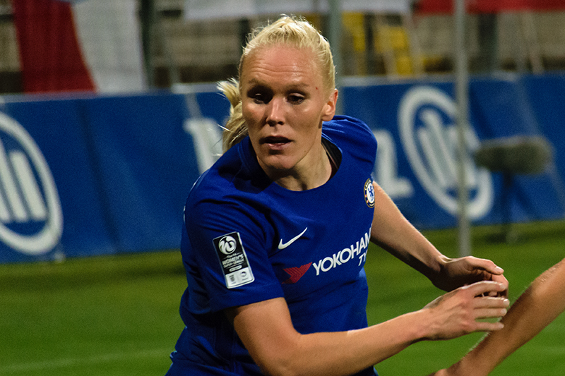 Maria Thorisdottir